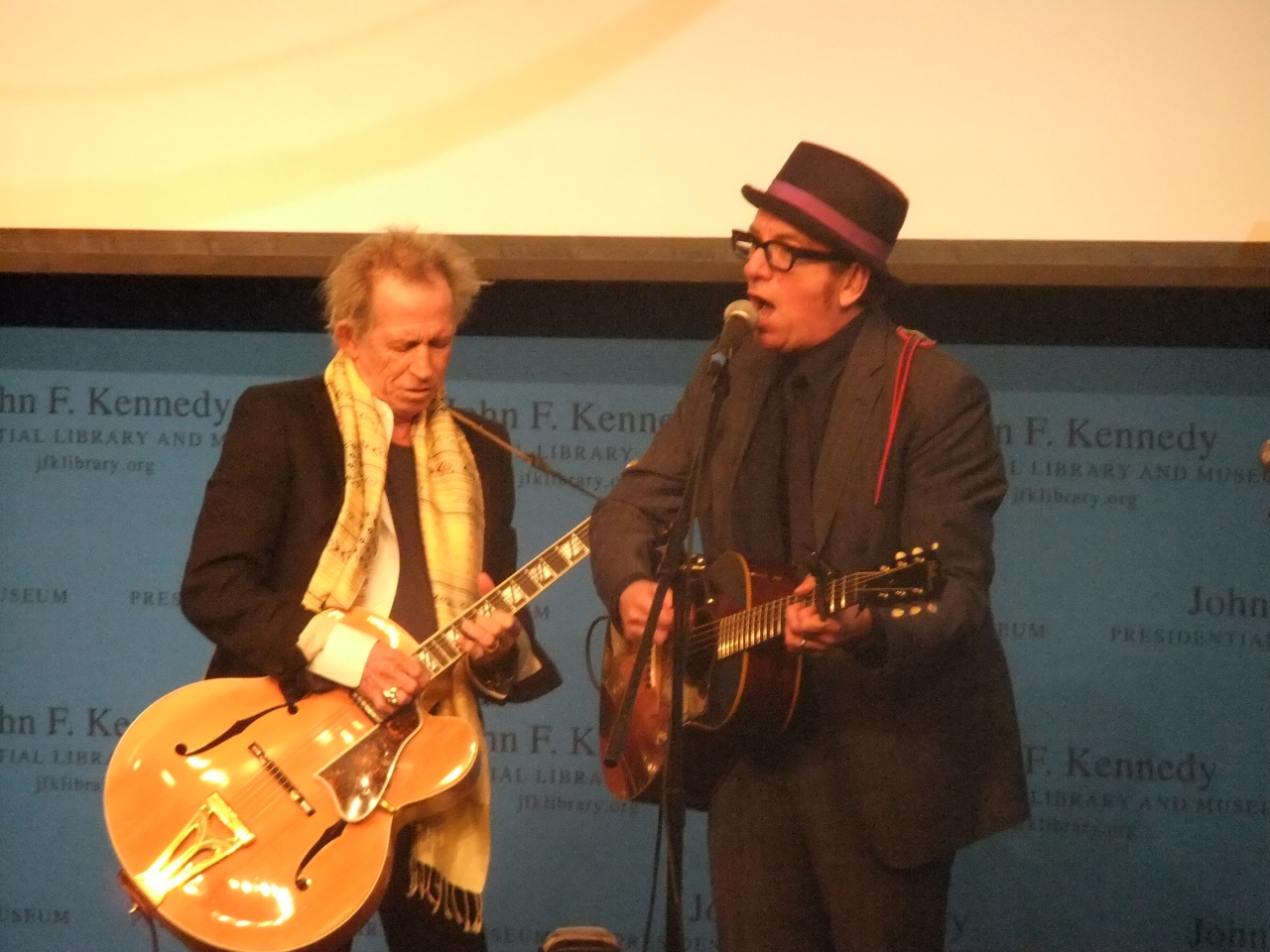 Keith Richards and Elvis Costello performing for Chuck Berry and Leonard Cohen, who were the recipients of the first annual Pen Awards for songwriting excellence-at the JFK Presidential Library, Boston, Mass. on Feb. 26, 2012. guitars left: Gibson guitar right: Gibson L-00 Note: Gibson reissued it (or similar model) as Elvis Costello Century of Progress acoustic guitar based on his '1936 model. (Binding: Single-ply Top and Back)